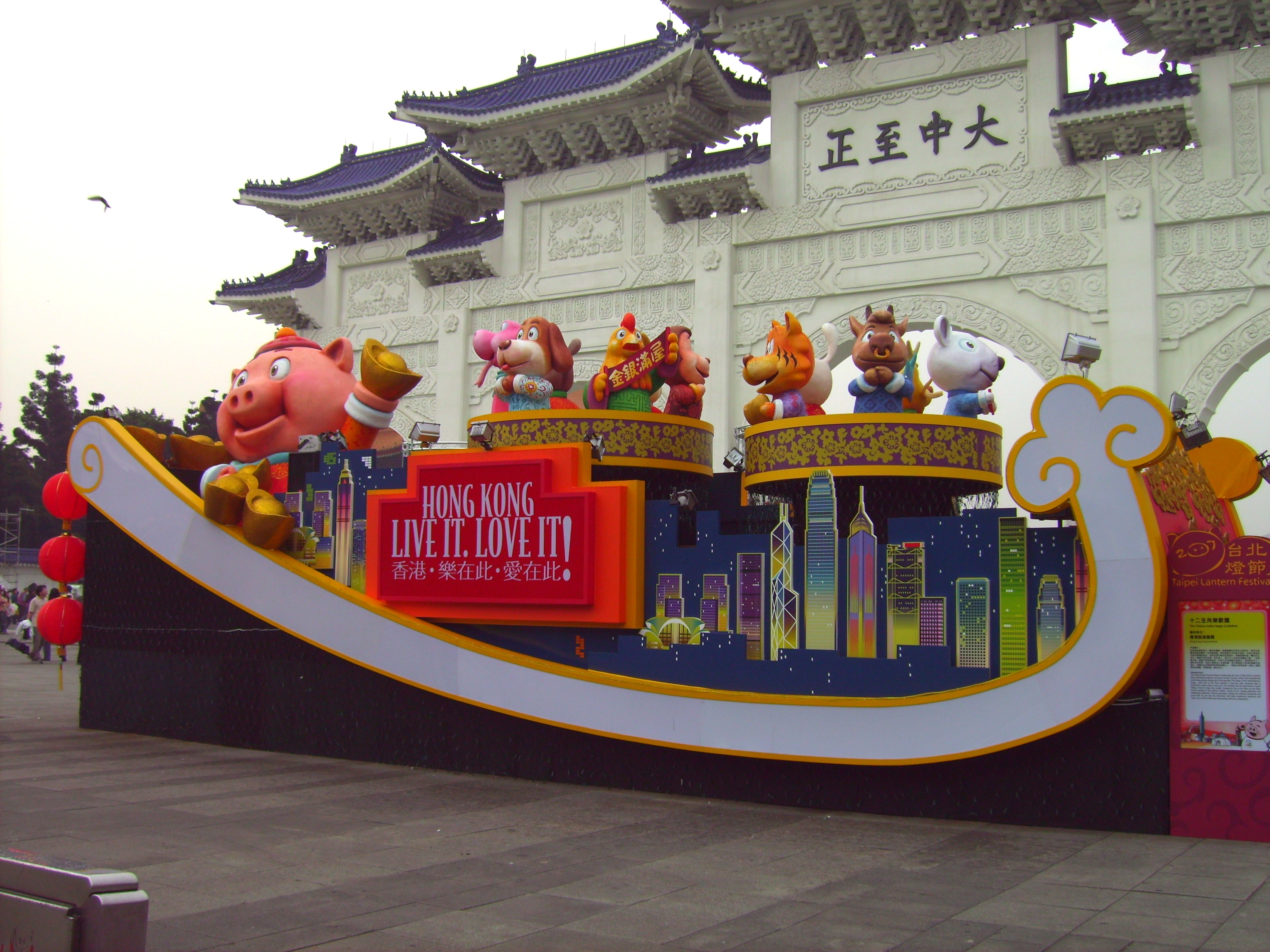 Hong Kong Tourism Board promoted Hong Kong with their special Theme "Chinese Zodiac World Party Celebration" lantern at 2007 Taipei Lantern Festival.